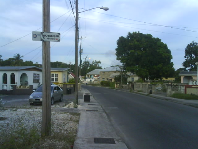 Tweedside Road (Highway 5) in the Two Mile Hill area. (Facing east.)